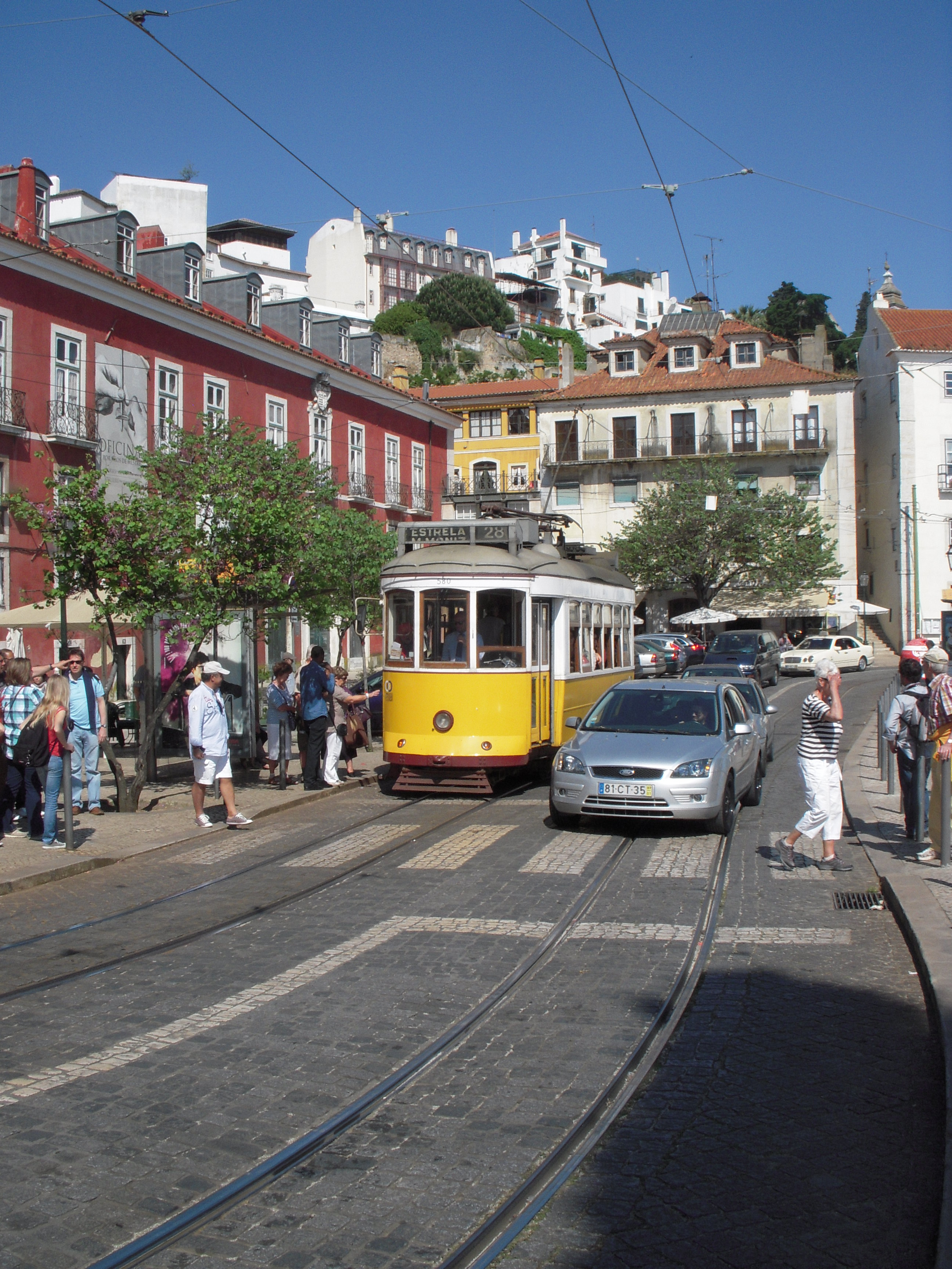 Tram in the streets of Lisbon, Portugal. April 2013